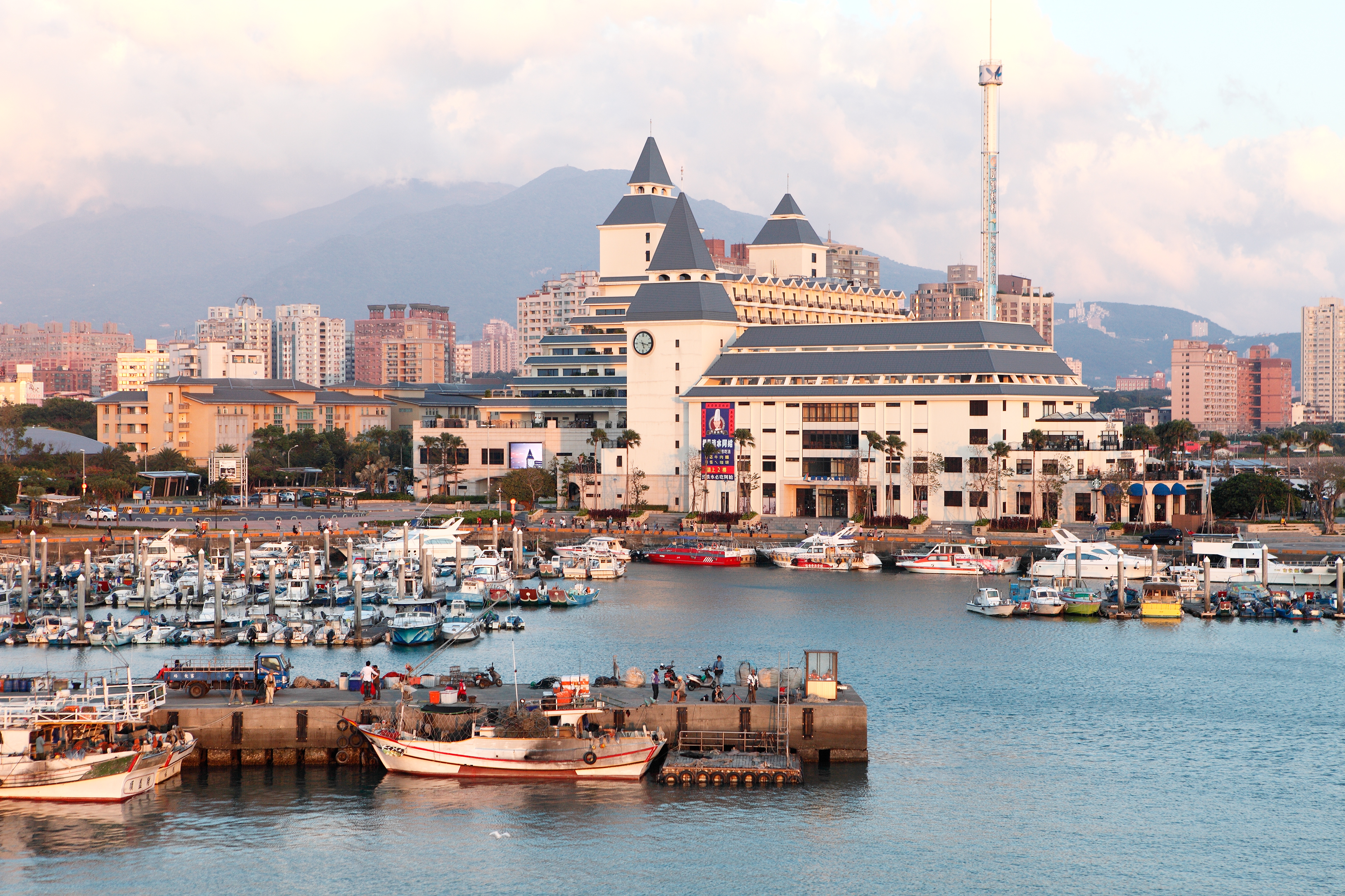 Tamsui Fisherman's Wharf 2012